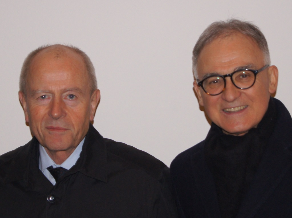 Andrzej Byrt with Klaus Ziemer, Heidelberg 2017